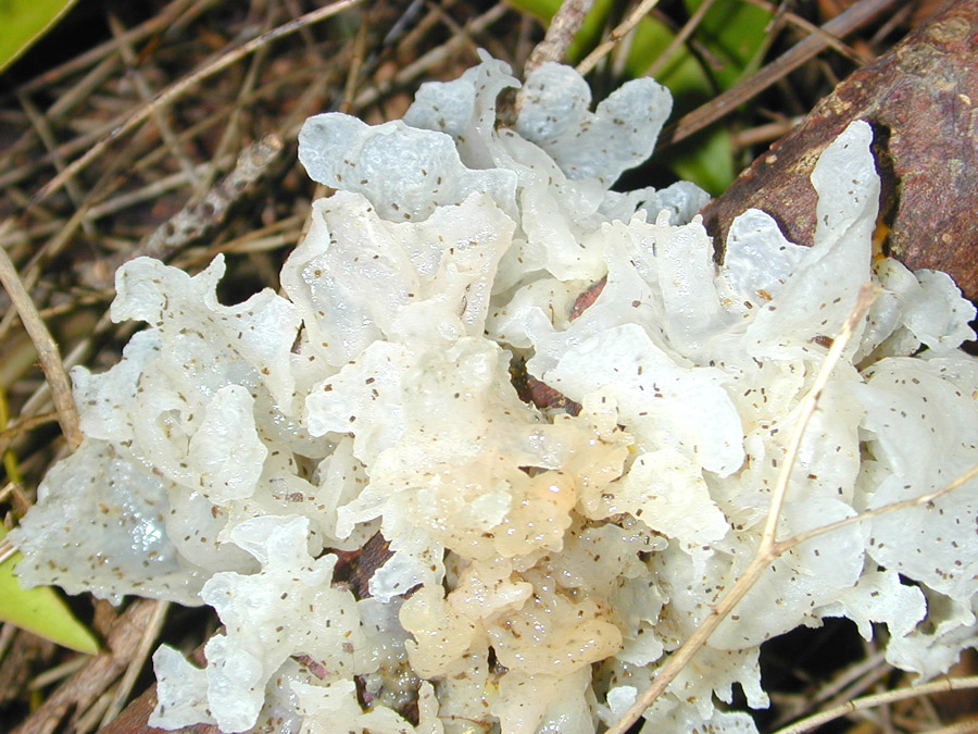 Image of jelly fungus (Tremella cf. fuciformis), in the wet forest on O'ahu, Hawai'i